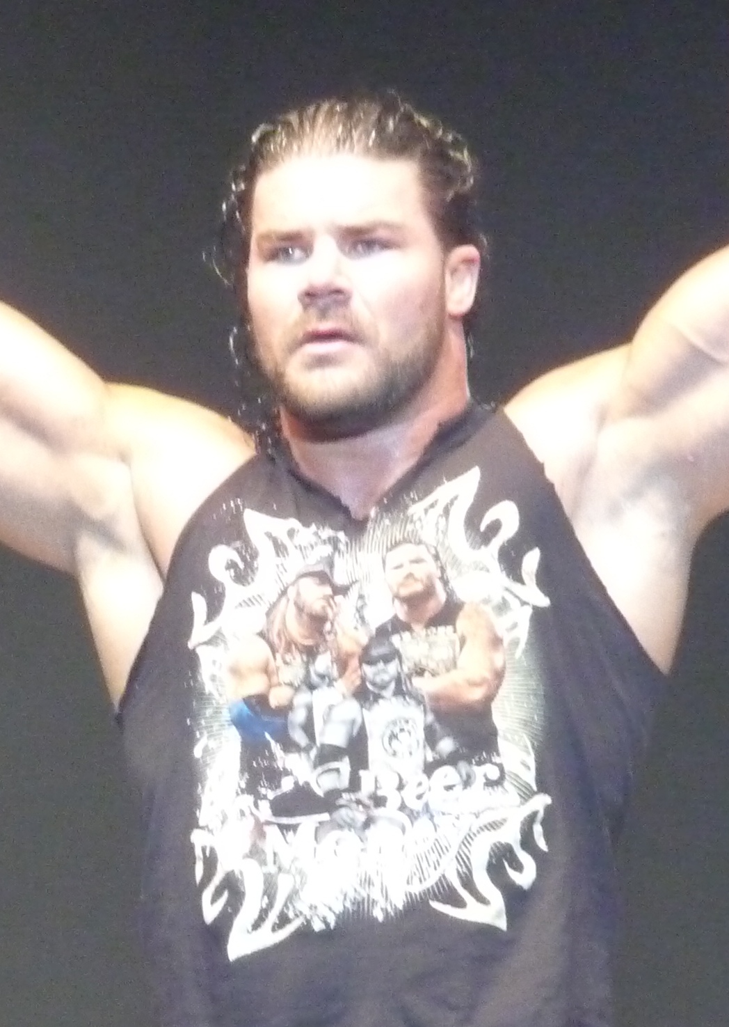 Professional wrestling tag team Beer Money posing prior to a match at a house show inEngland in January 2010.